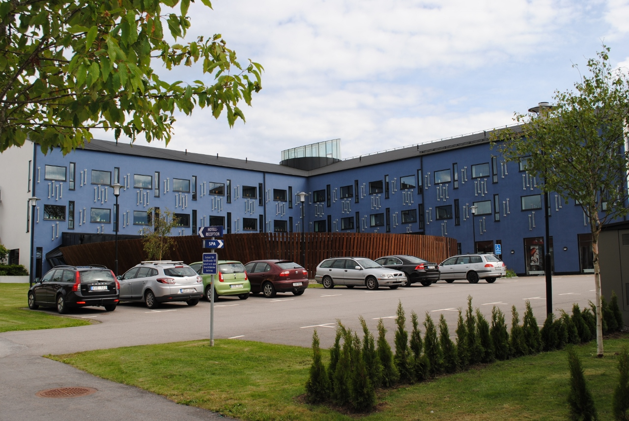 KOSTA BODA ART HOTEL